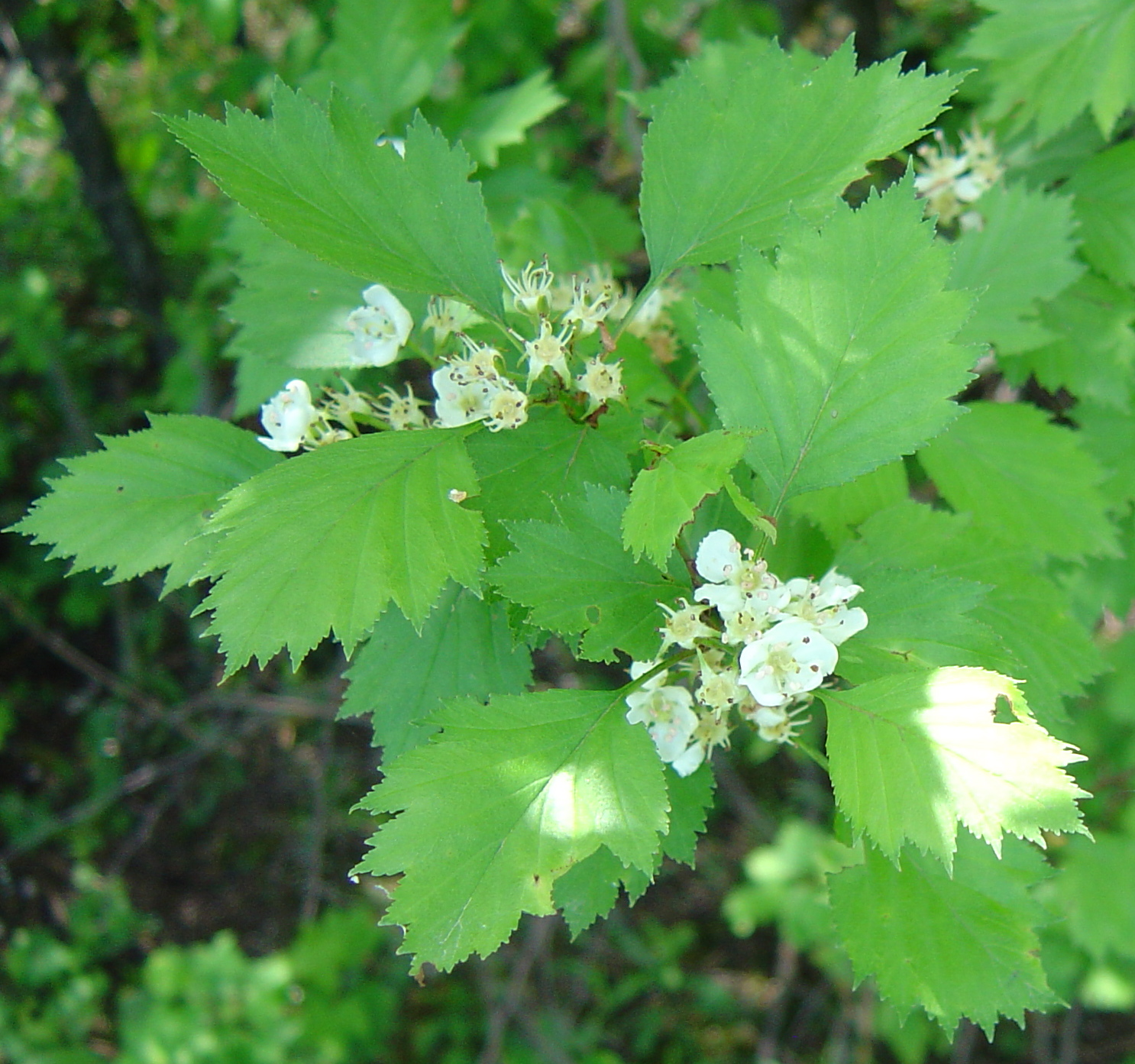 Wild tree near Eugenia, Ontario, Canada